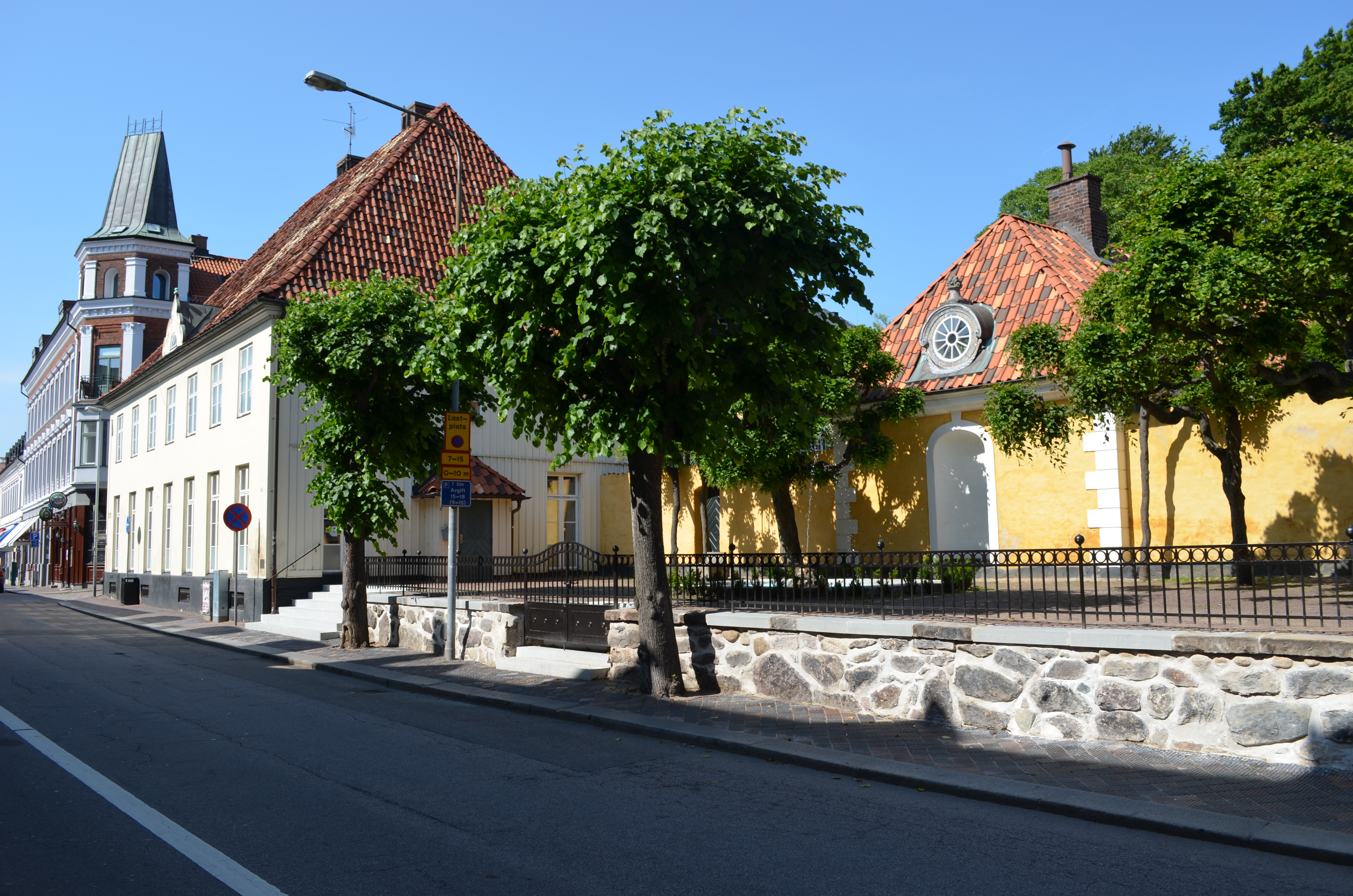 Garden at Henckelska gården in Helsingborg